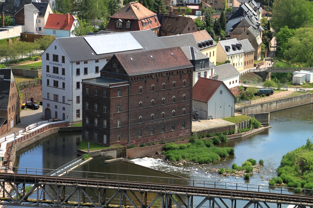 Rochlitz, "Schlossmühle", old watermill on the Mulde river.